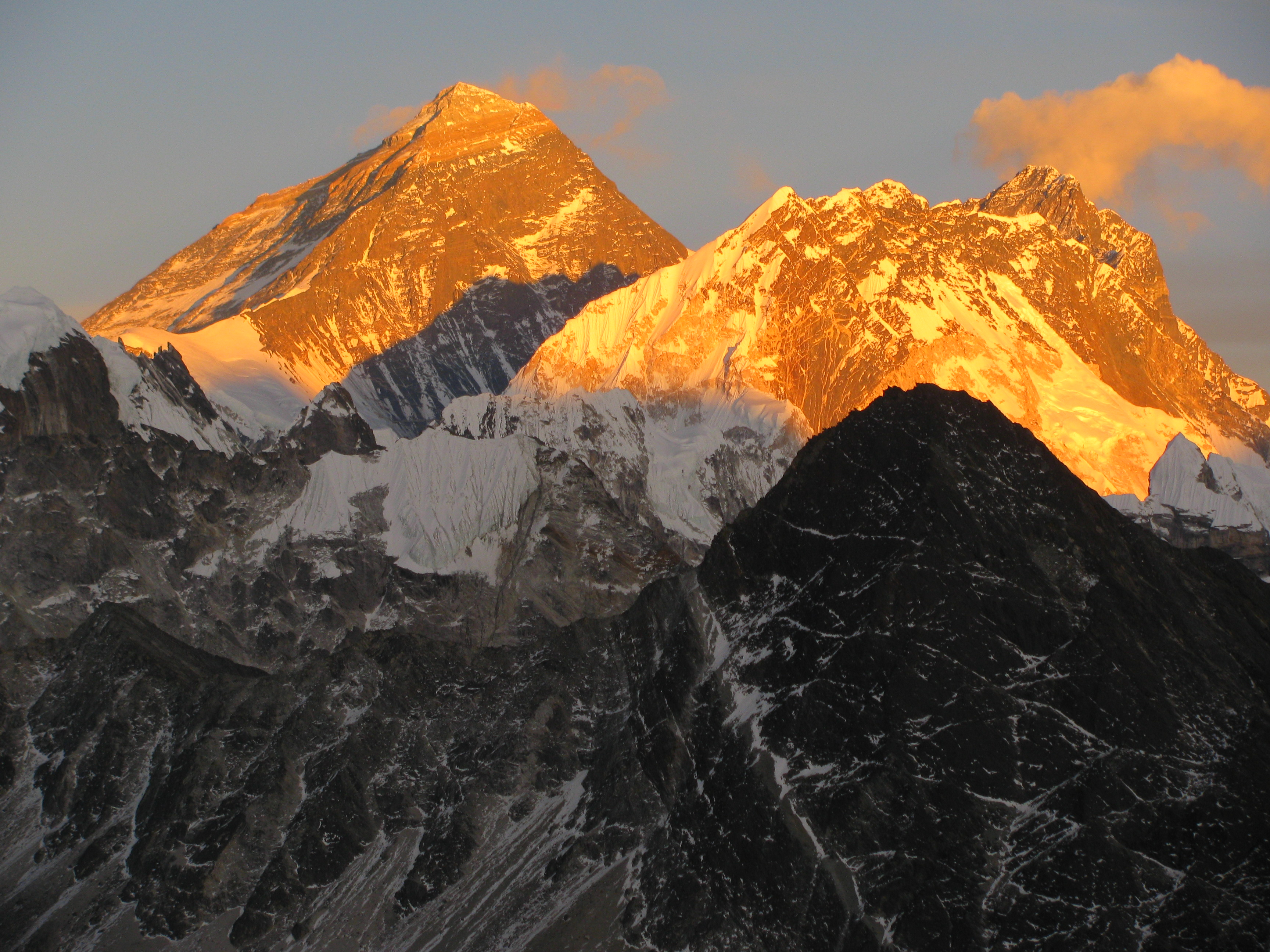 Glaciologist Kimberly Casey took this photo of Mt. Everest (left peak) lit by the sunset while she was in the field at Khumbu Glacier in the Nepali Himalayas. See Flickr source for more information